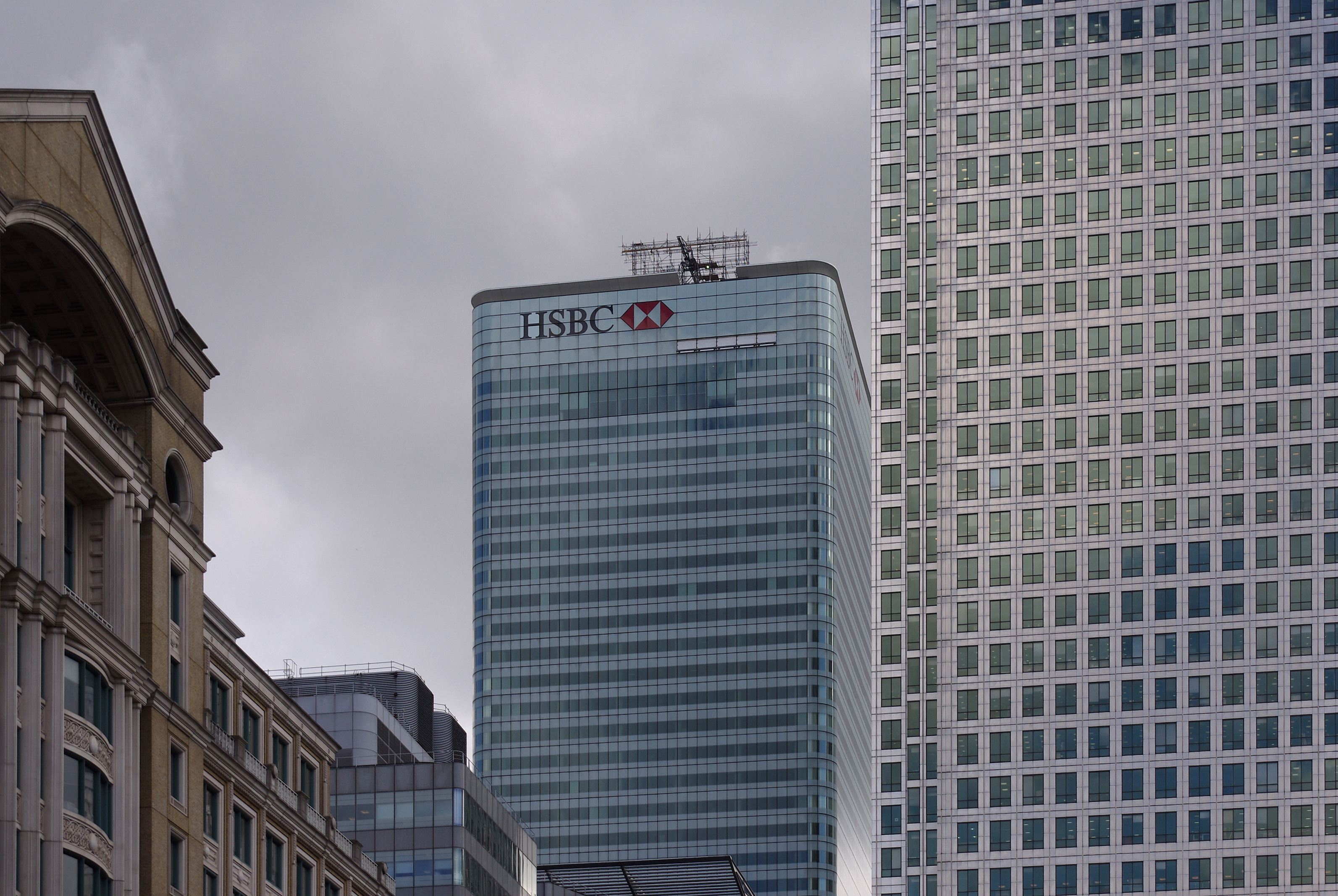 The HSBC building in Canary Wharf, seen from Cabot Square.